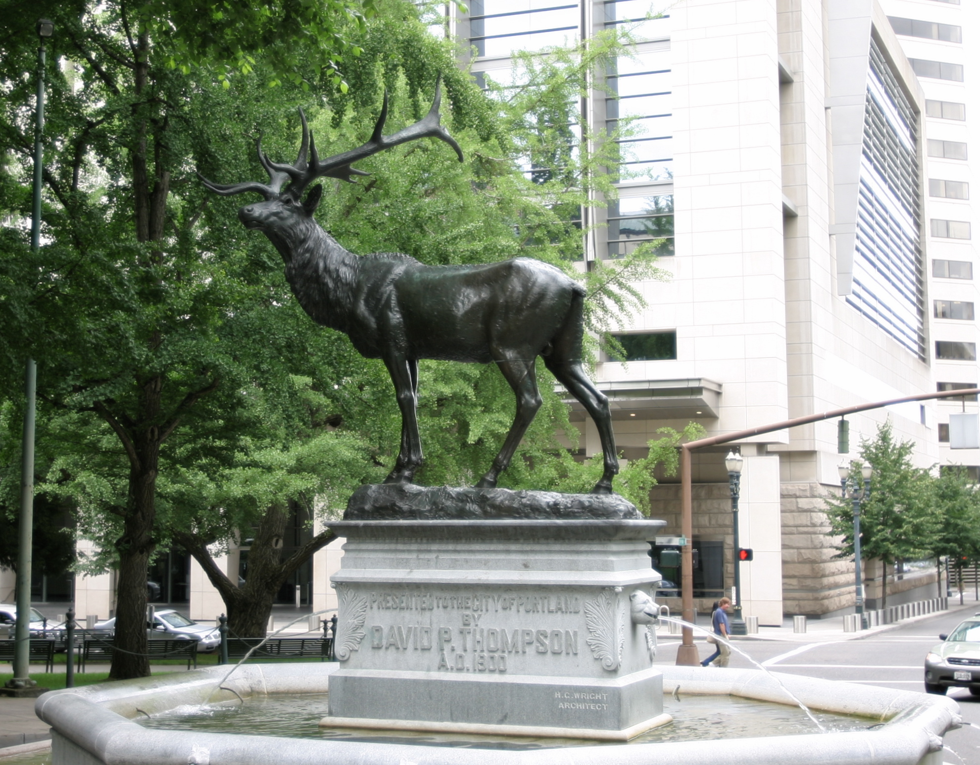 The Elk Statue in Portland, Oregon located on SW Main Street.